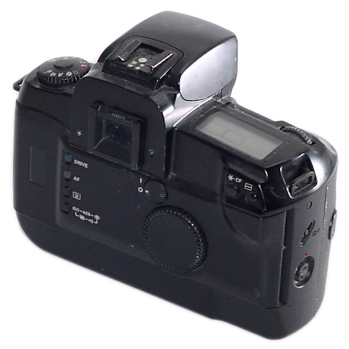 Back and top view of a Canon EOS A2 autofocus 135 film SLR camera